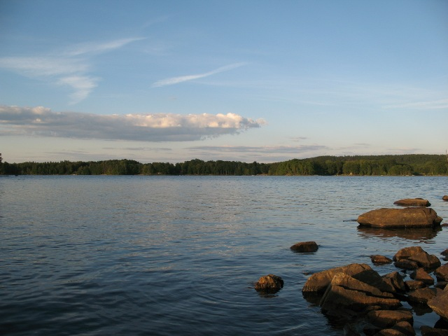 Lake Immeln in south Sweden.